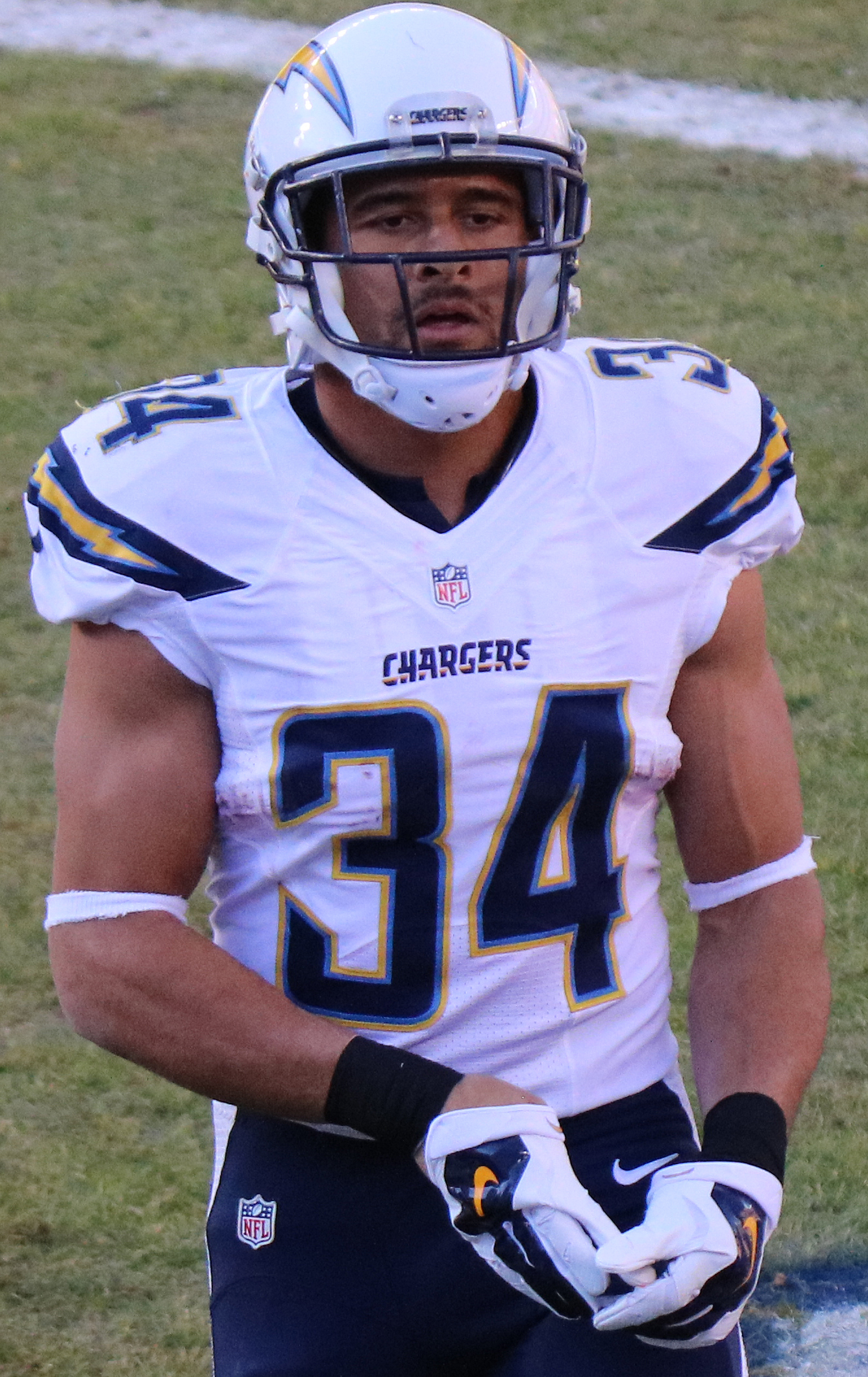 Donald Brown, a player on the National Football League.